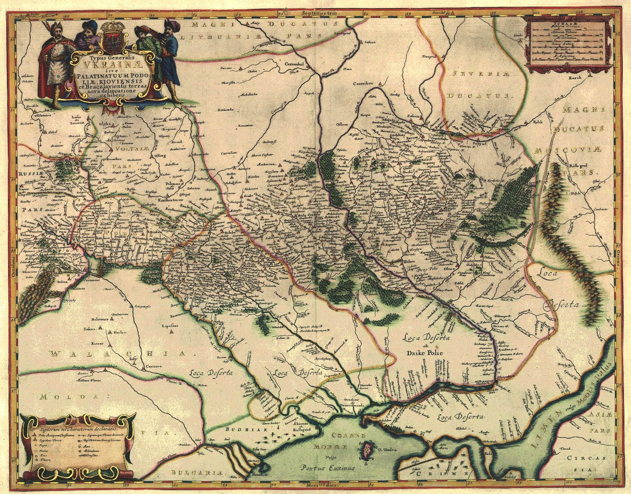 Map engraved either by Willem Hondius or Jan Janssonius — originally sketched by Beauplan of the Podilia and Kyiv voivodeships.